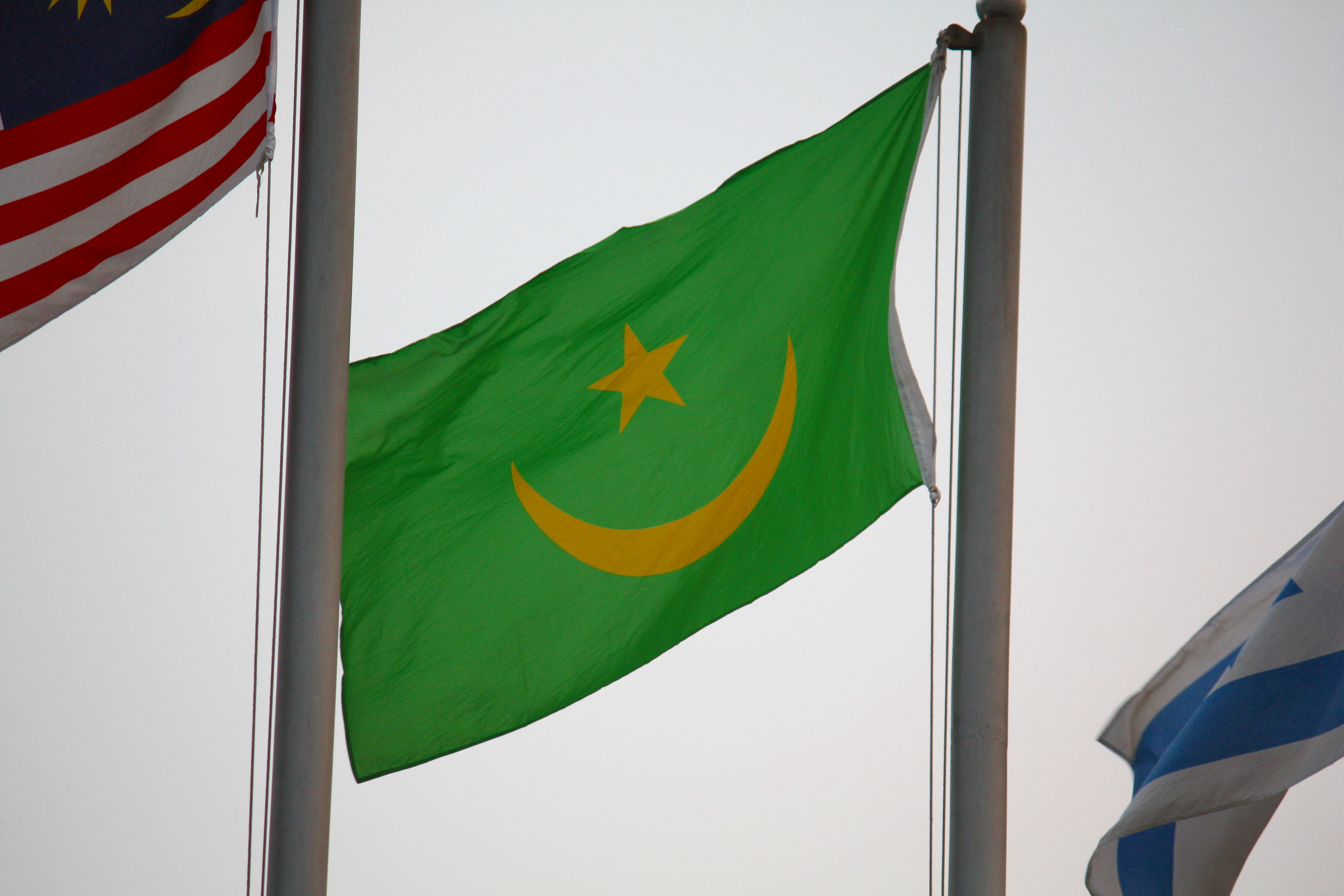 Flag of Mauritania in Shenzhen